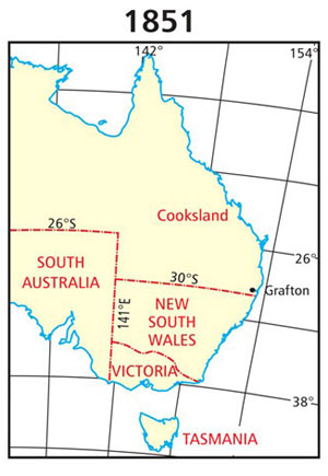 1851 map of the proposed Cooksland state border along a line at 30 degrees south latitude, a proposal by John Dunmore Lang